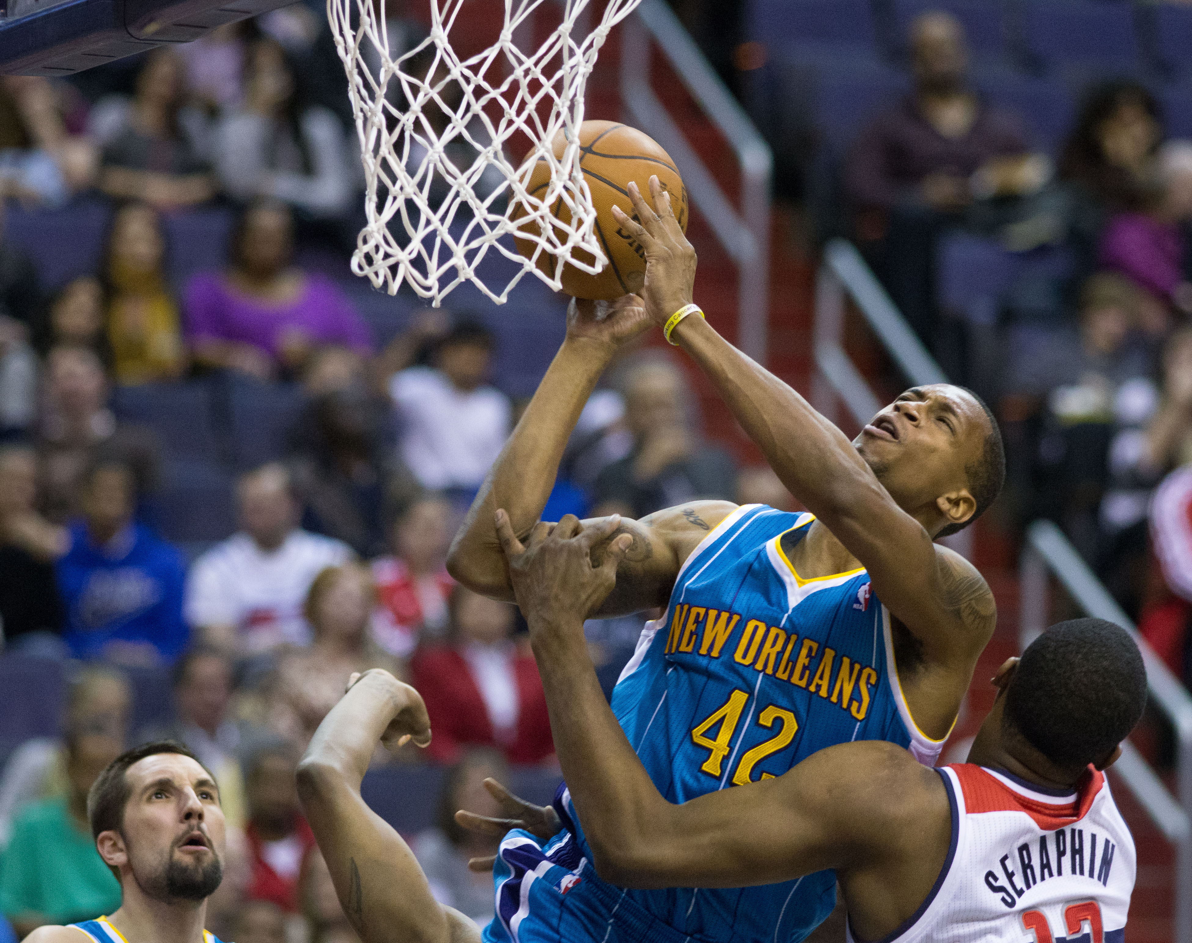 New Orleans Hornets at Washington Wizards March 15, 2013